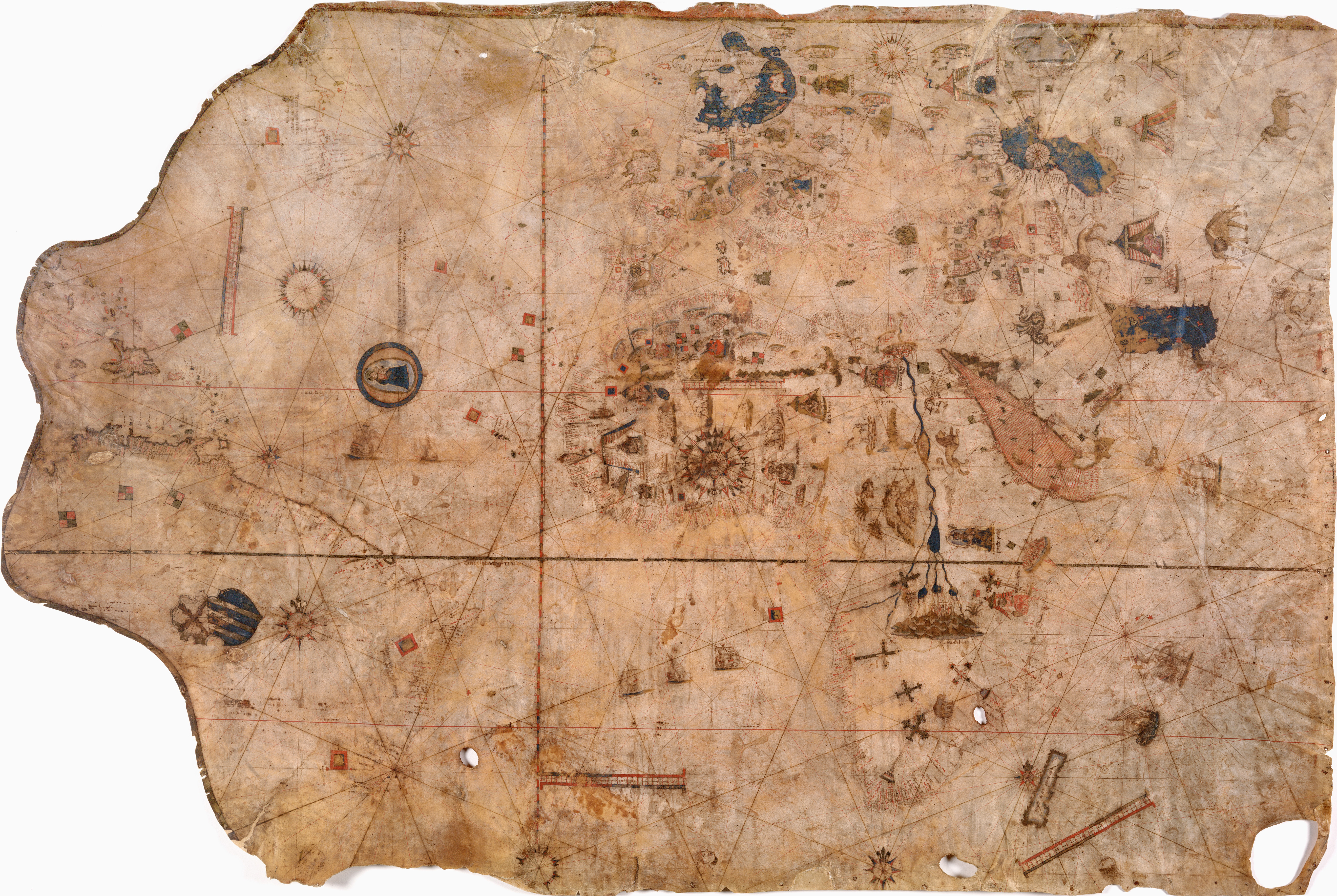 Mediterranean. HM 2515. PORTOLAN ATLAS. Naples, 1516 Call Number: HM 427 Folio: 1 item Description: World chart, from eastern coasts of America to India.